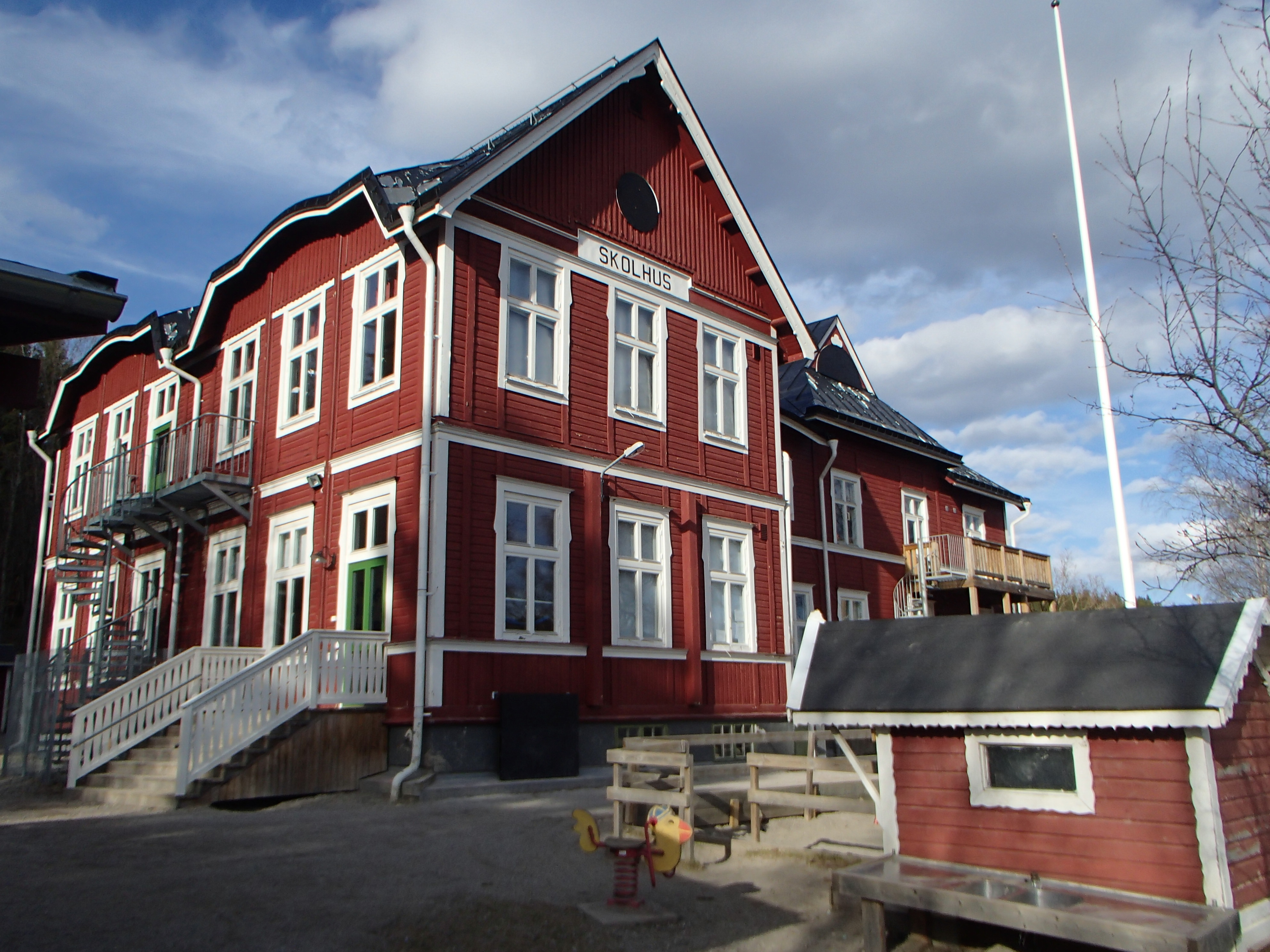 The school building of "Nedansjö skola" in Nedansjö, west of Sundsvall, Sweden, viewed from southwest